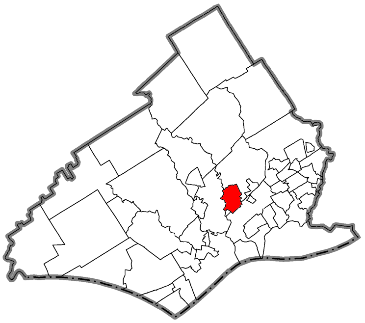 Showing the location within Delaware County, Pennsylvania.